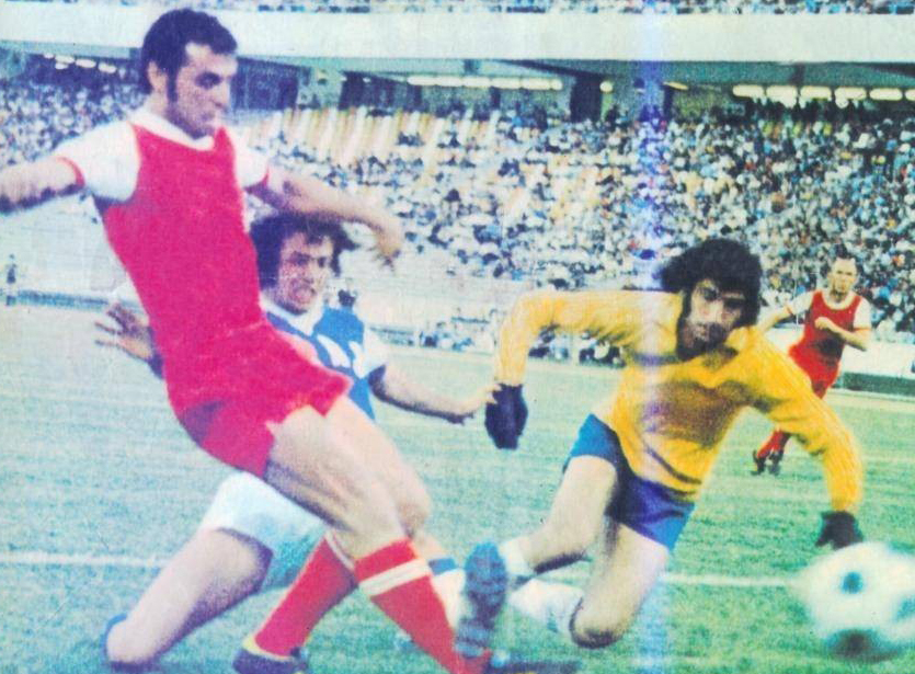 Homayoun Bezadi scoring one of his three goals in Persepolis' 6:0 victory against Taj in September 6, 1973